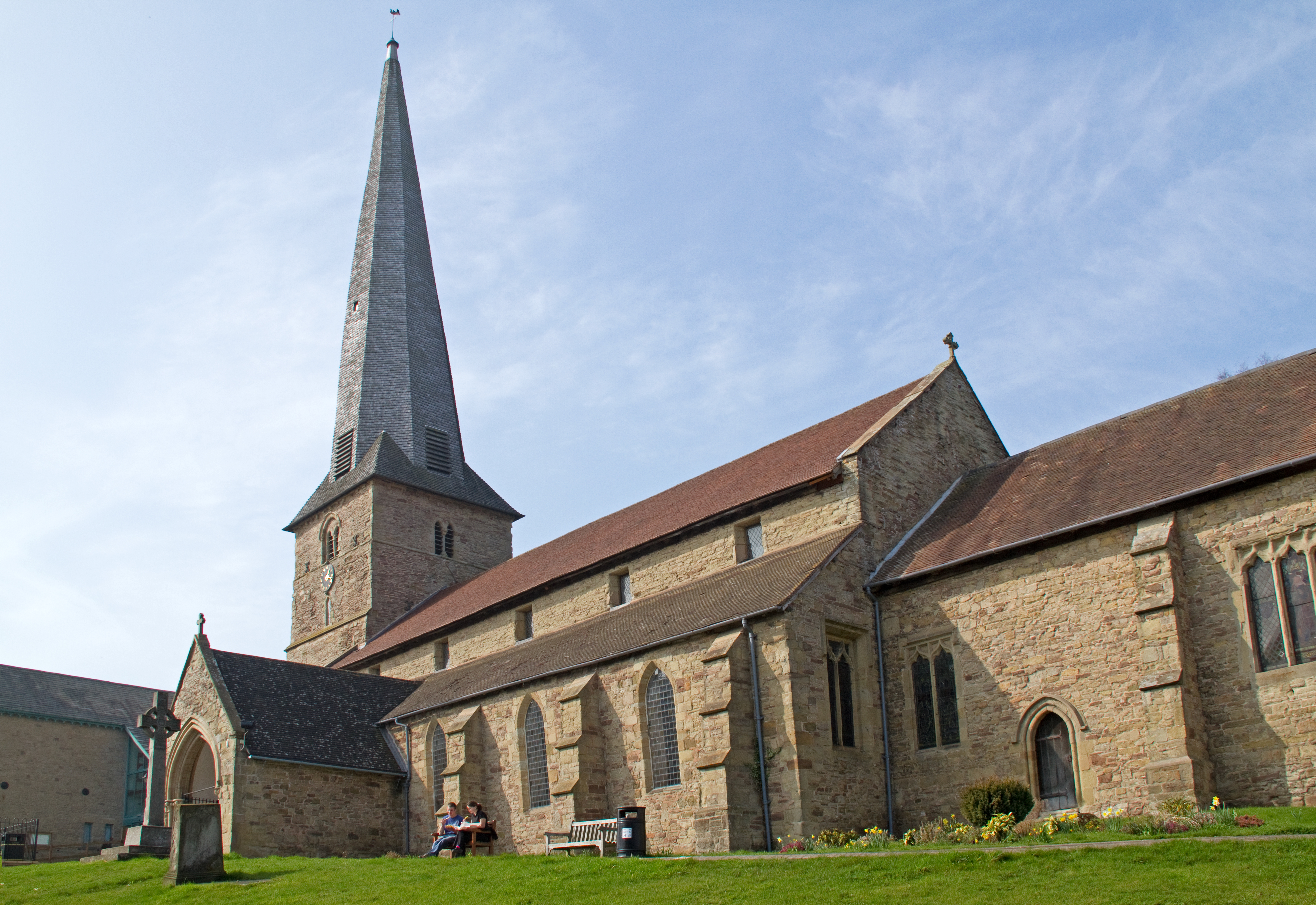 Church of St Mary Cleobury Mortimer 2